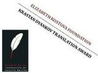 Logo of Krastan Dyankov Translation Award